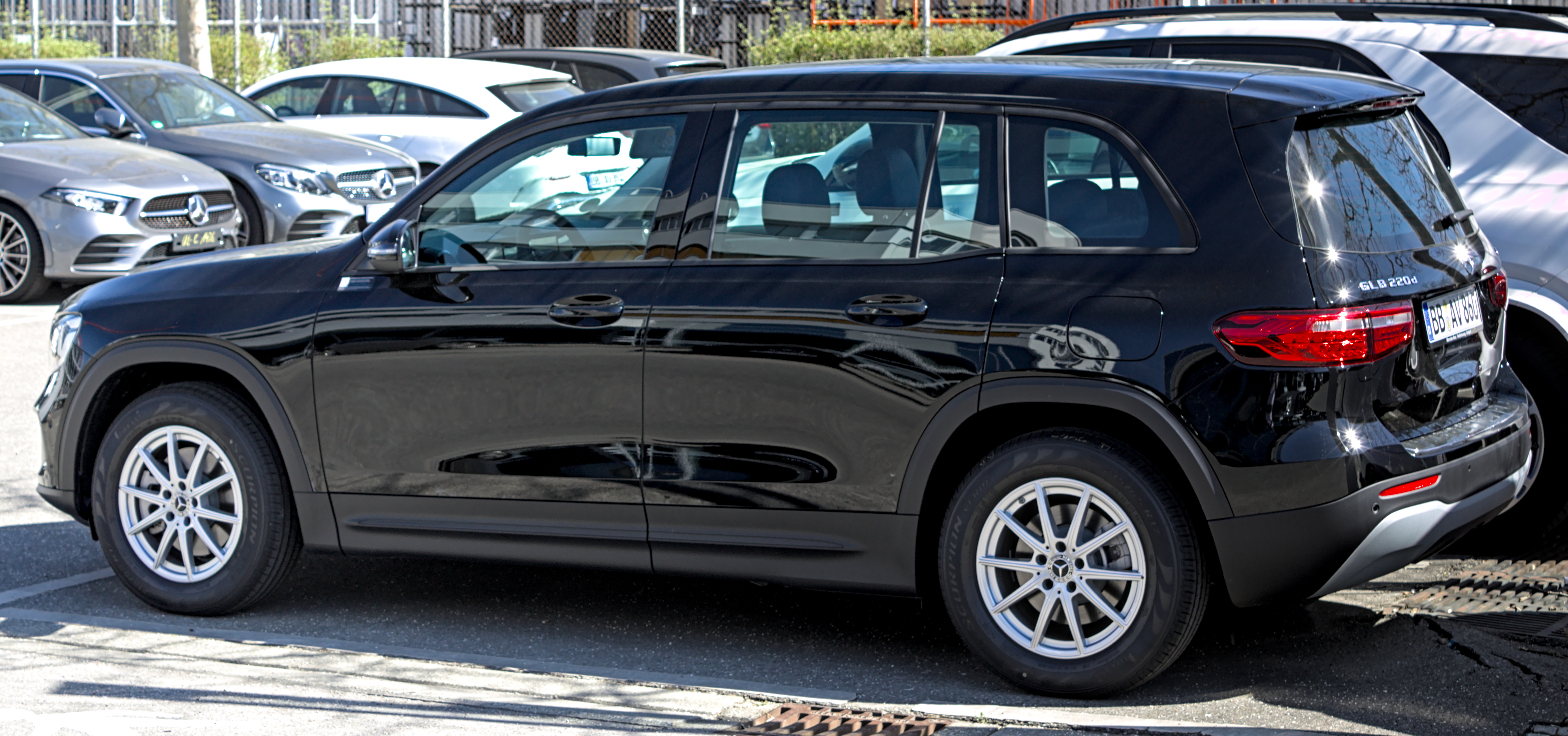 Mercedes-Benz_X247 in Böblingen